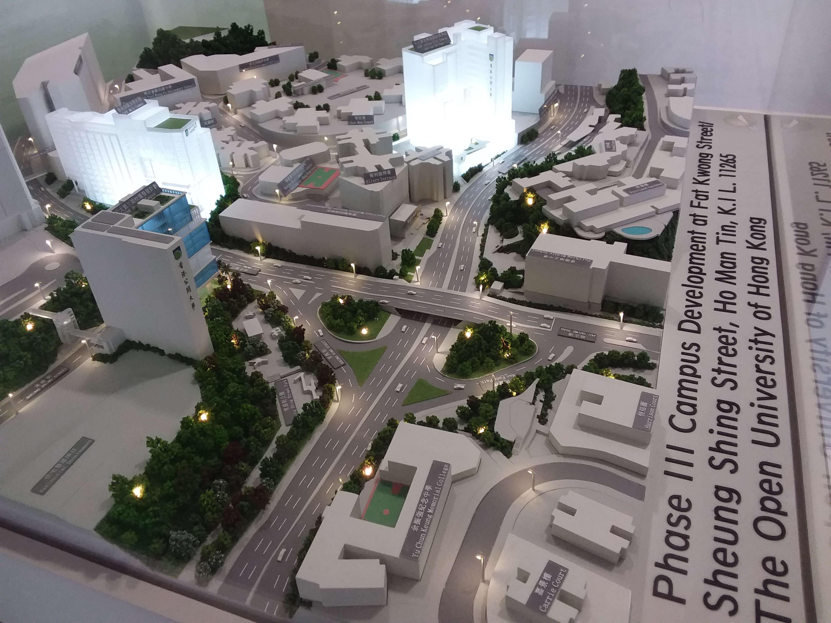 HK 何文田 Ho Man Tin 香港公開大學 OUHK Jockey Club Campus 忠孝街 Chung Hau Street in September 2019